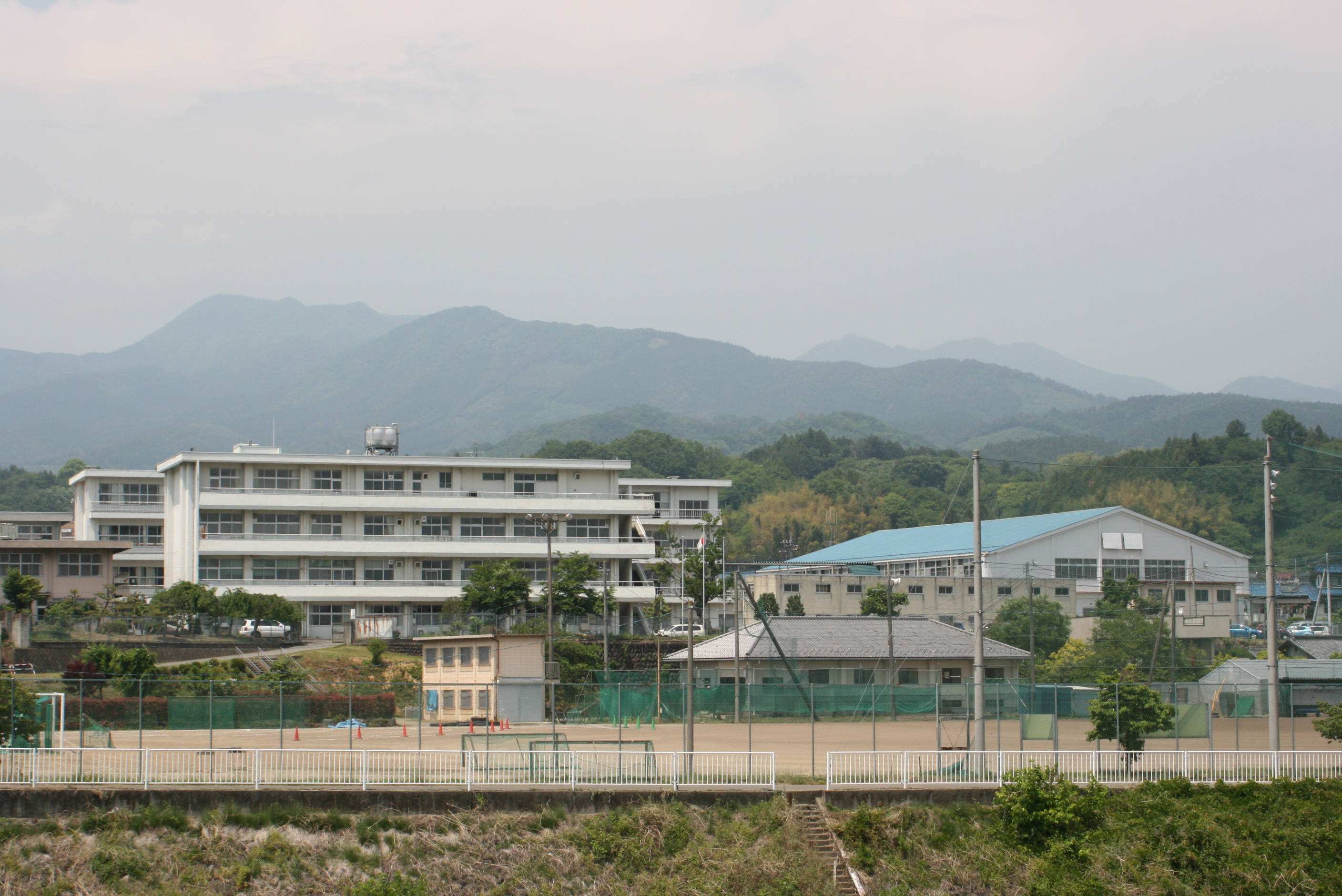 Gunam prefectural Haruna high school